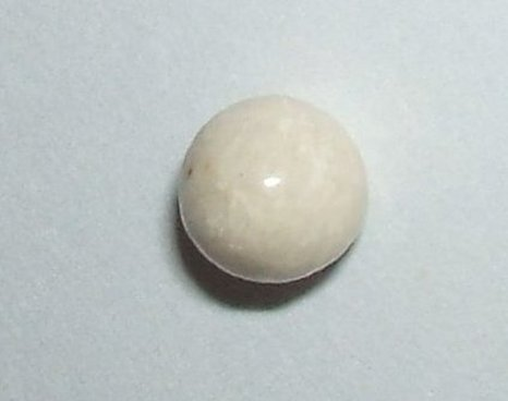 A pearl from a scallop